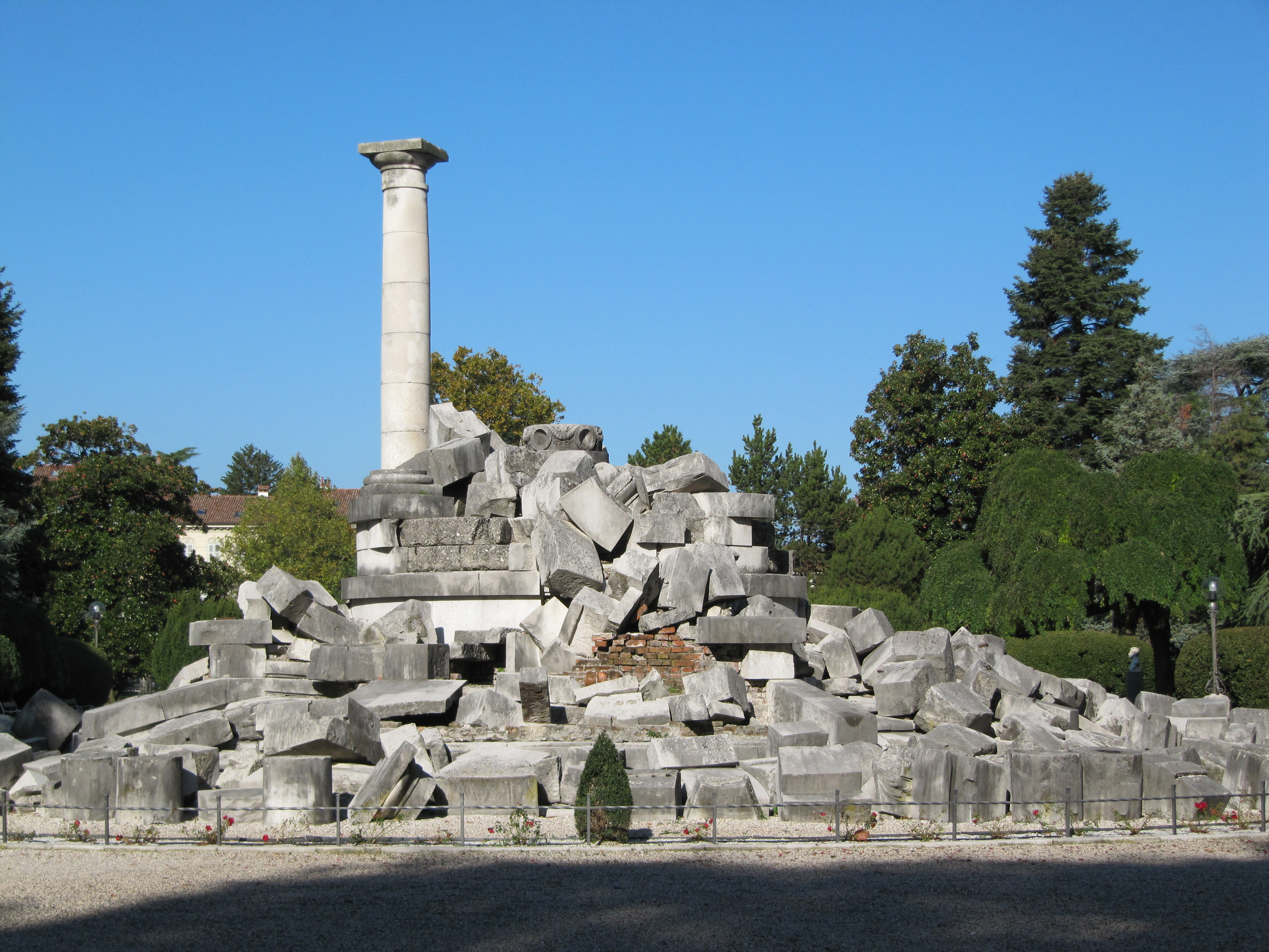 Ruins of circle temple made by Enrico Del Debbio of remembrance park of Gorizia in Italy.